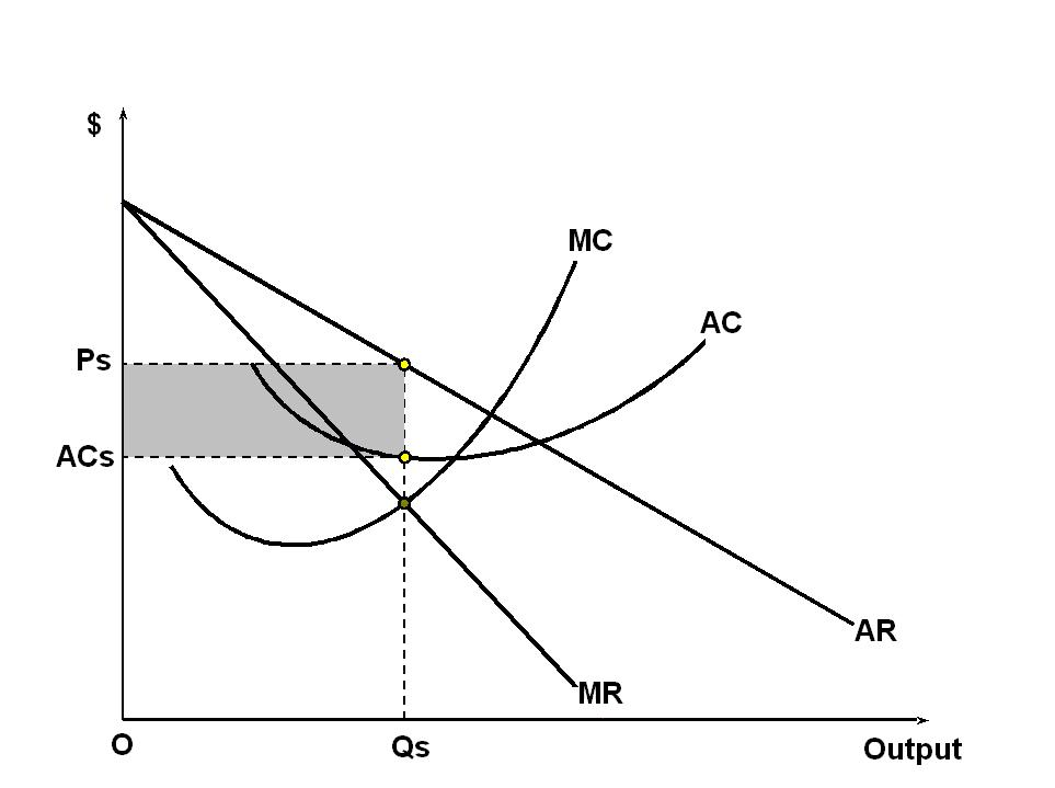 Short-run equilibrium of the firm under monopolistic competition. The grey box illustrates abnormal profit, though the firm could just as easily be making a loss.